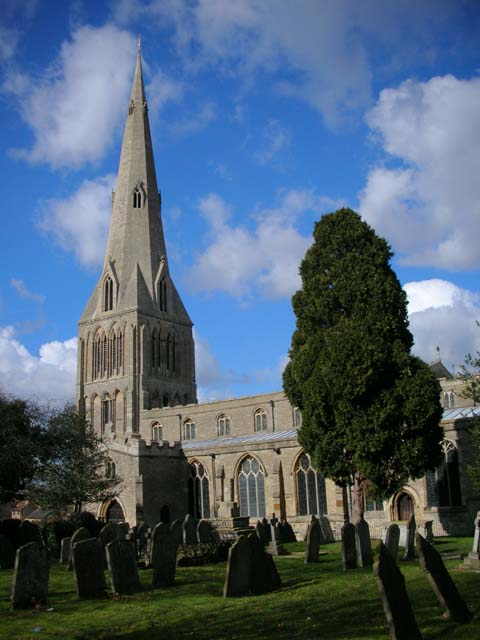 Church of England parish church of St Peter, Raunds, Northamptonshire, seen from the southeast